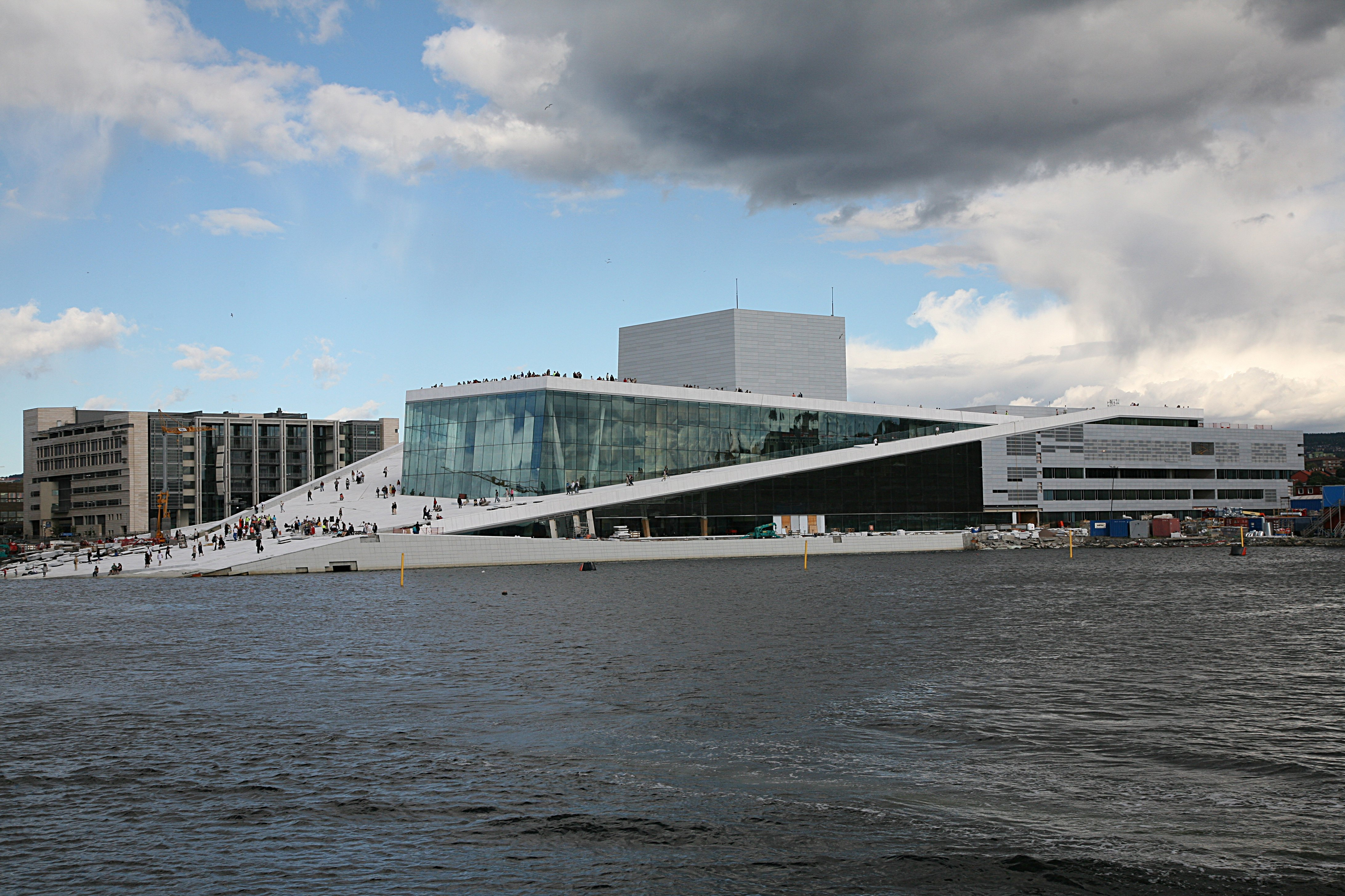 The new opera house in Bjørvika Oslo during "open roof day" August 26. 2007. Picture taken from a boat.